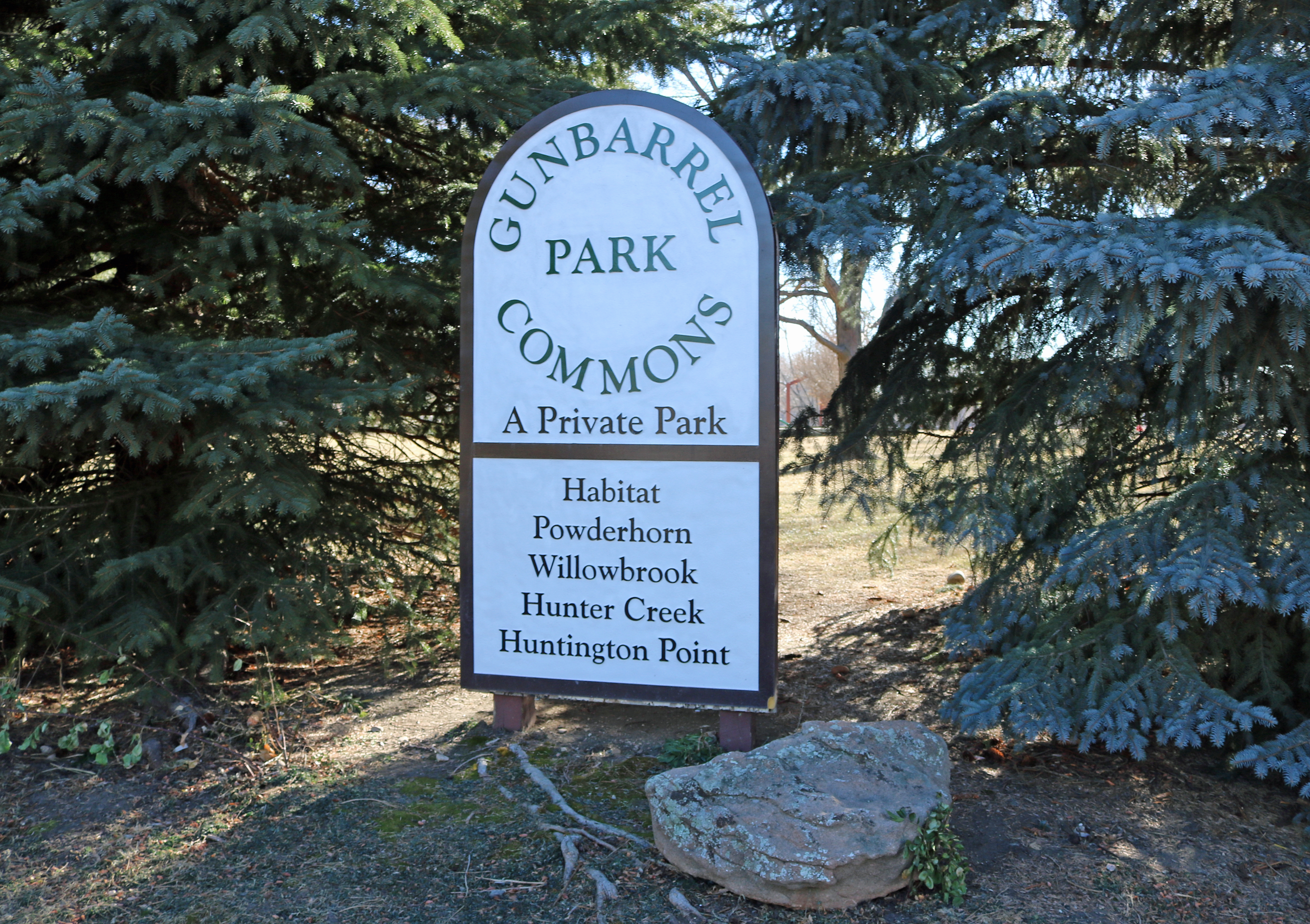 Gunbarrel Commons Park, a private park located in Gunbarrel, Colorado. The sign is at the intersection of White Rock Circle and Indigo Court in Gunbarrel.